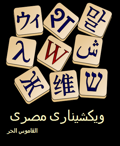 Wiktionary masry logo مصرى: اللوجو بتاع ويكشينارى مصرى